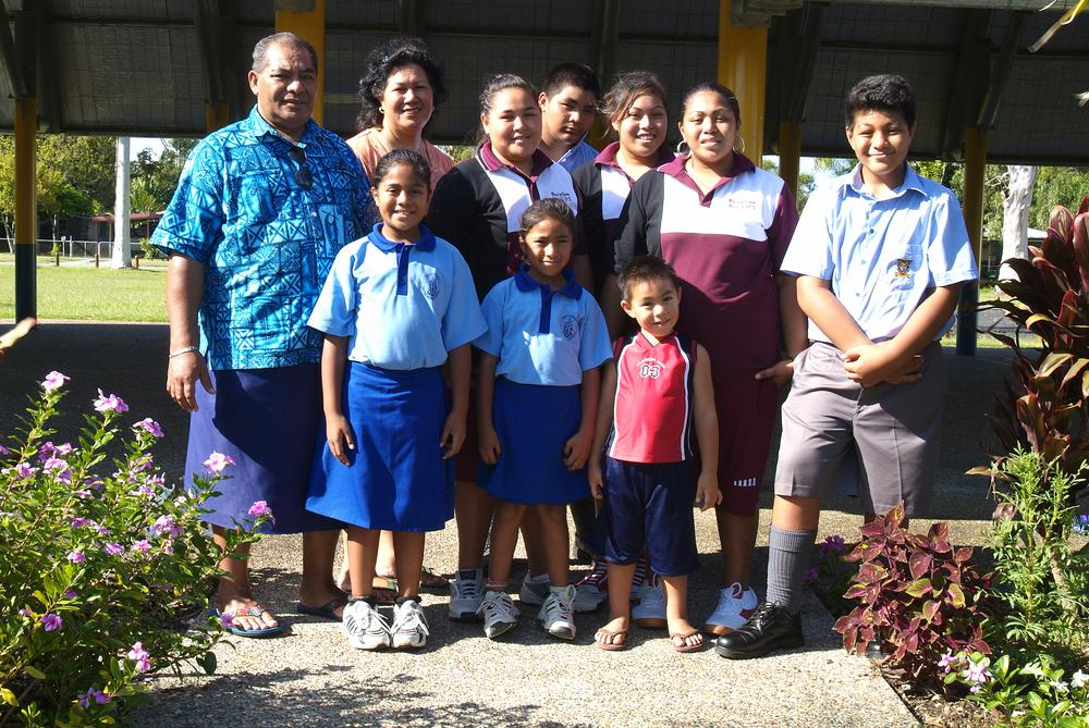 Hanamenn Hunt and family, one of the Samoan families living in Queensland The Maota Fono Community Meeting House was opened in November 2003 by the Governor Ms Quentin Bryce and the Honourable Dean Wells, enabling the area's Pacific Islander population to retain important links to their culture. Its construction was part of the Deception Bay Community Renewal Program. Its design is based on the original Maota in Apia, Samoa, where village leaders (pulenu'u) meet every week. The community meeting house underpins the significance of the regional Samoan community. It is used for meetings of the Council of Chiefs, traditional celebrations, community education and a range of cultural events where the Samoan and wider communites are welcome. Visitors from other parts of Queensland, Australia and overseas come to visit the Maota Fono in Deception Bay.